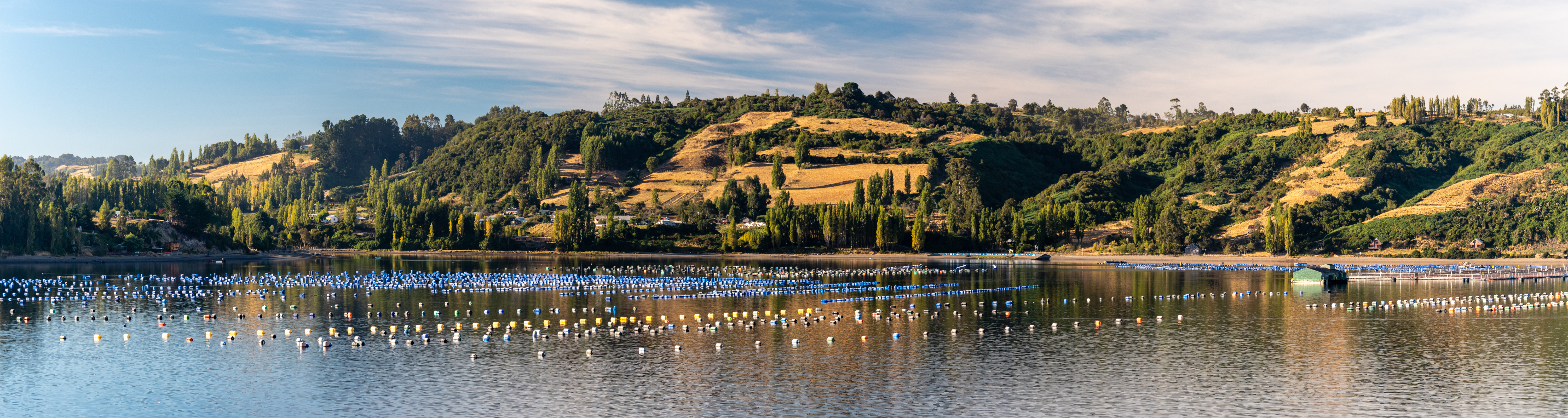 Mussel aquaculture farming in the fjords south of Castro, Chile on March 16, 2019.